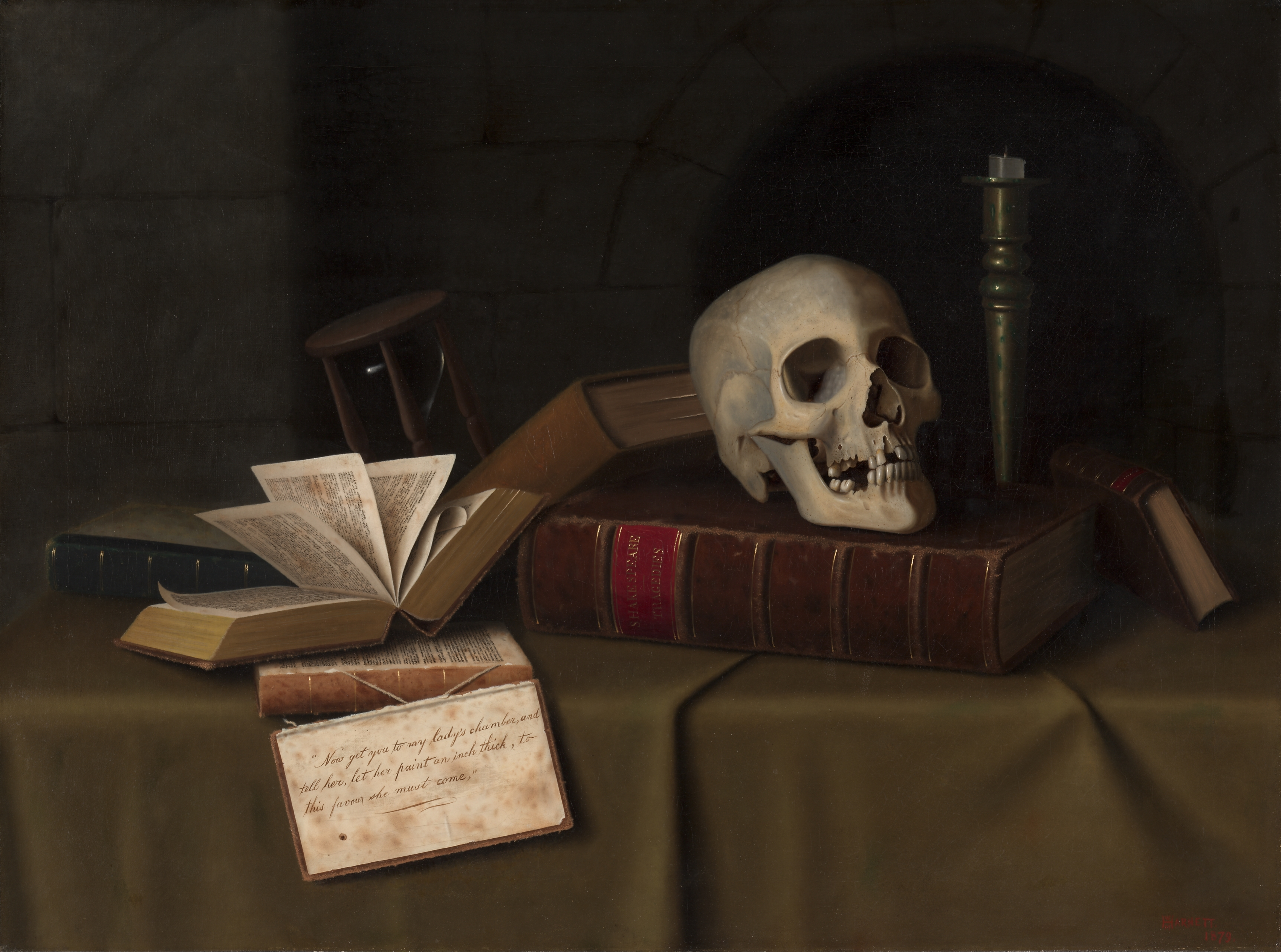 Memento Mori “To This Favour”, oil on canvas painting by William Michael Harnett, 1879, Cleveland Museum of Art